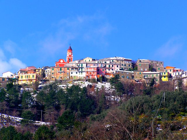 Neve